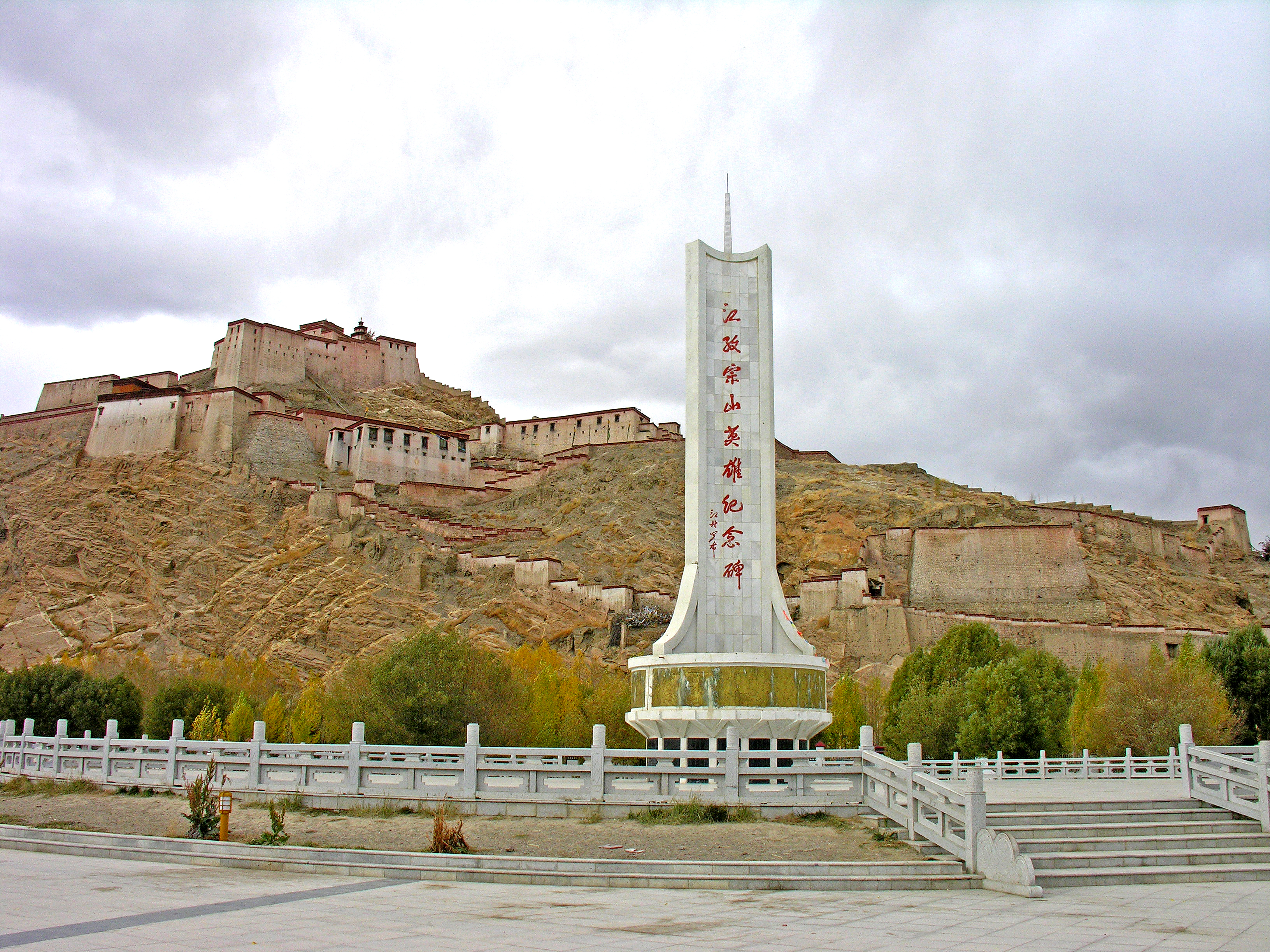 The Gyantse Dzong, or fortress, dominates the local skyline. At the foot of the fortress was this monument that was to remember the Tibetans who lost their lives fighting the British. Gyantse, Tibet